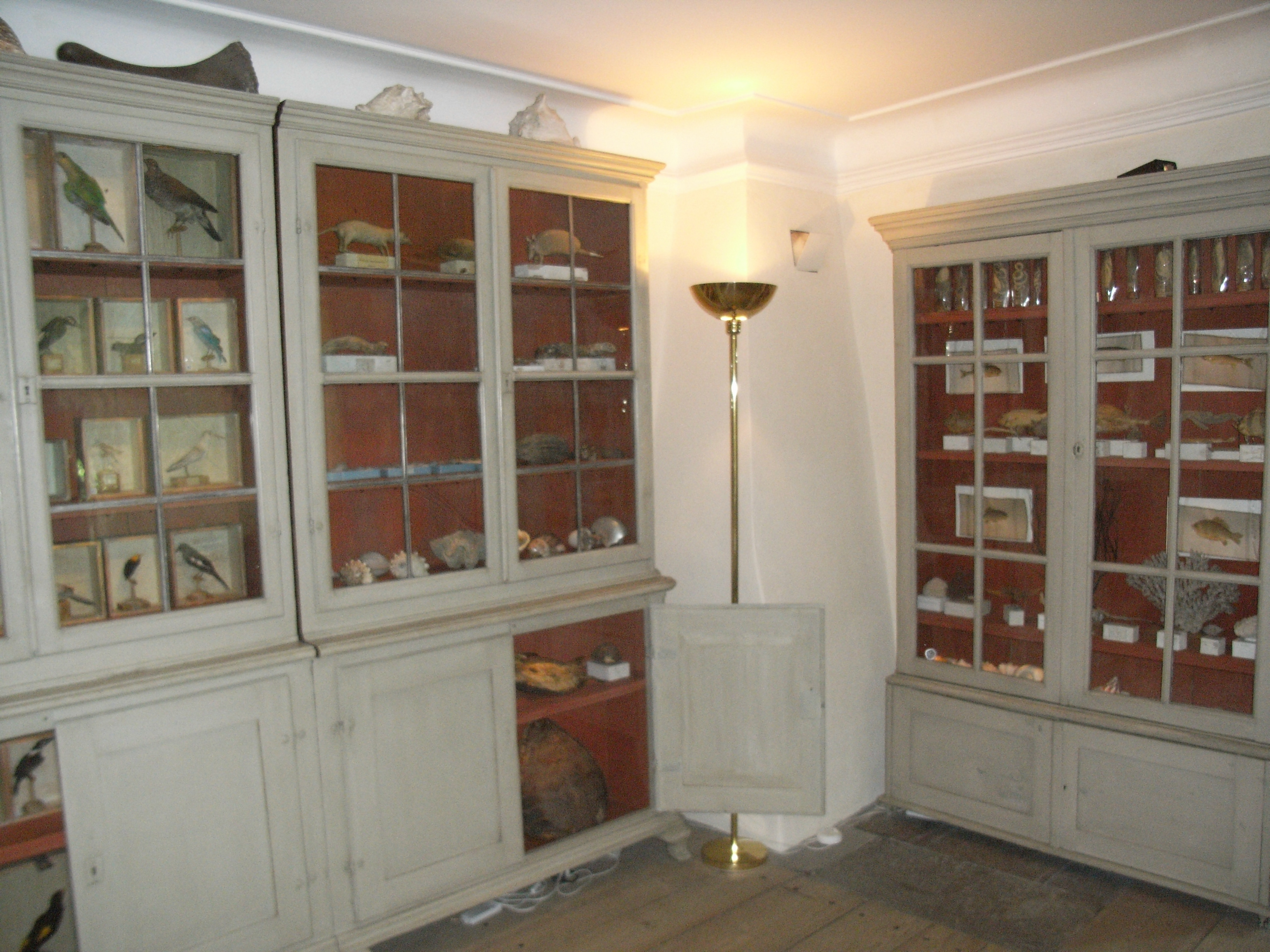 Linne Museum